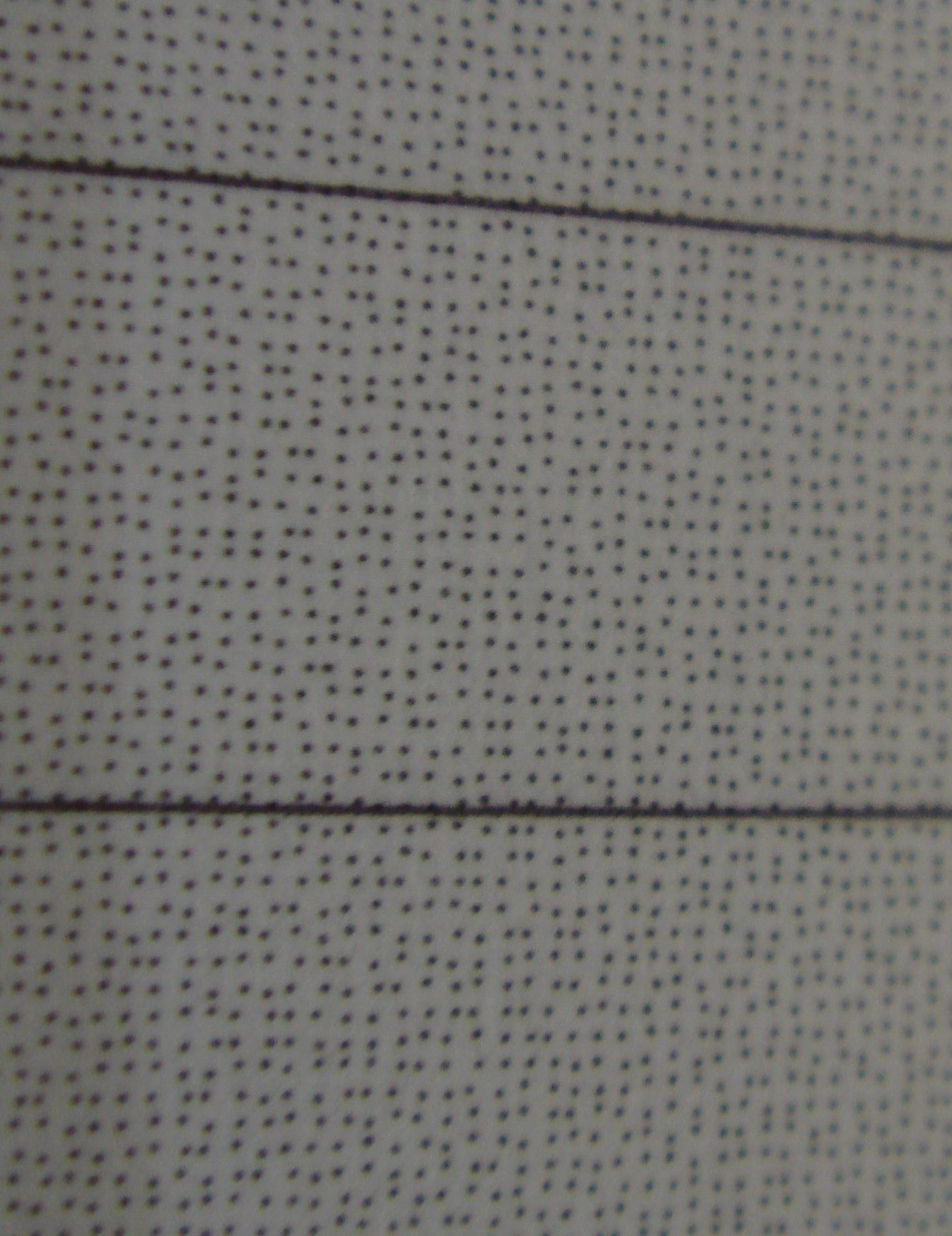 Magnification of a sheet of digital paper from Anoto Systems